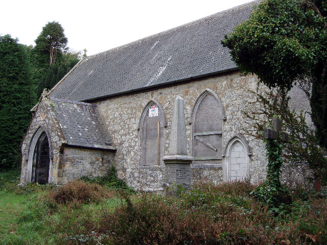 The disused church of St Michael and All Angels, Baldhu. Once the parish church of Baldhu, when this was a busy mining area. Now completely deserted - you can see the memorial to the 19C revivalist preacher Billy Bray, noted for 'his sanctified wit, Christian simplicity and fervid faith'